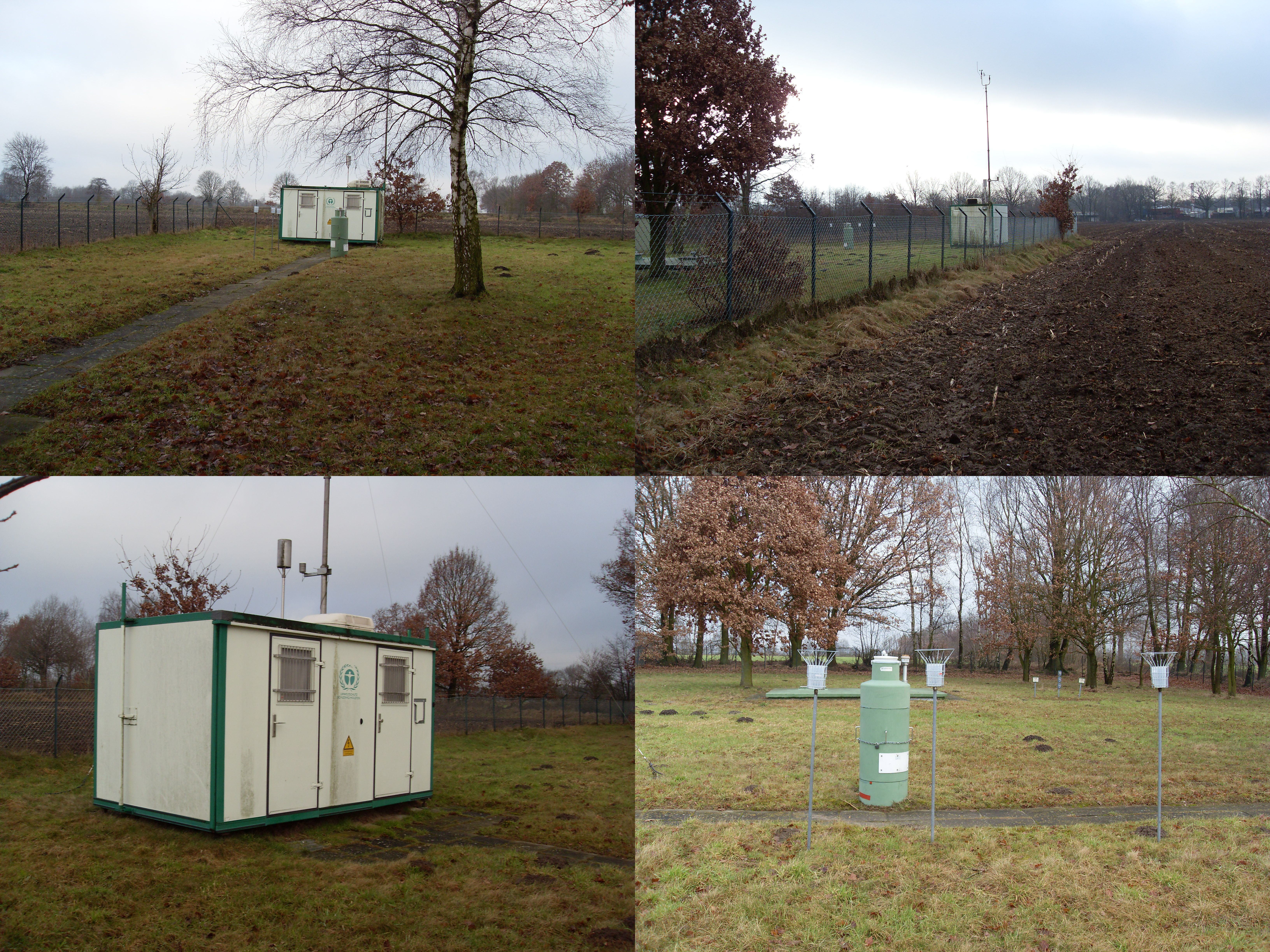 Environmental measuring point of the county Schleswig-Holstein in Barsbüttel close to Hamburg